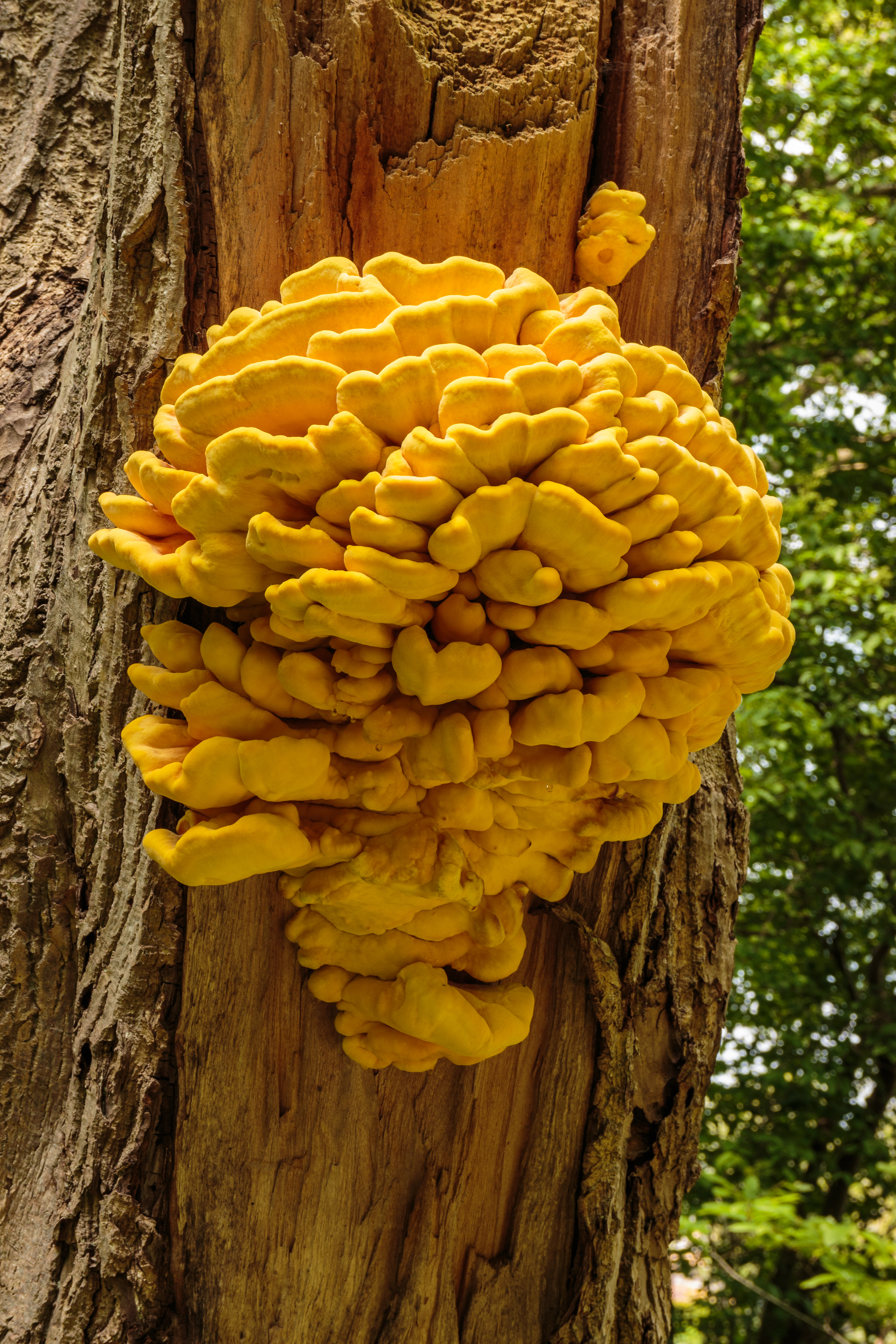 Hortus Haren. ( Laetiporus sulphureus ) on ( Ginkgo biloba ).